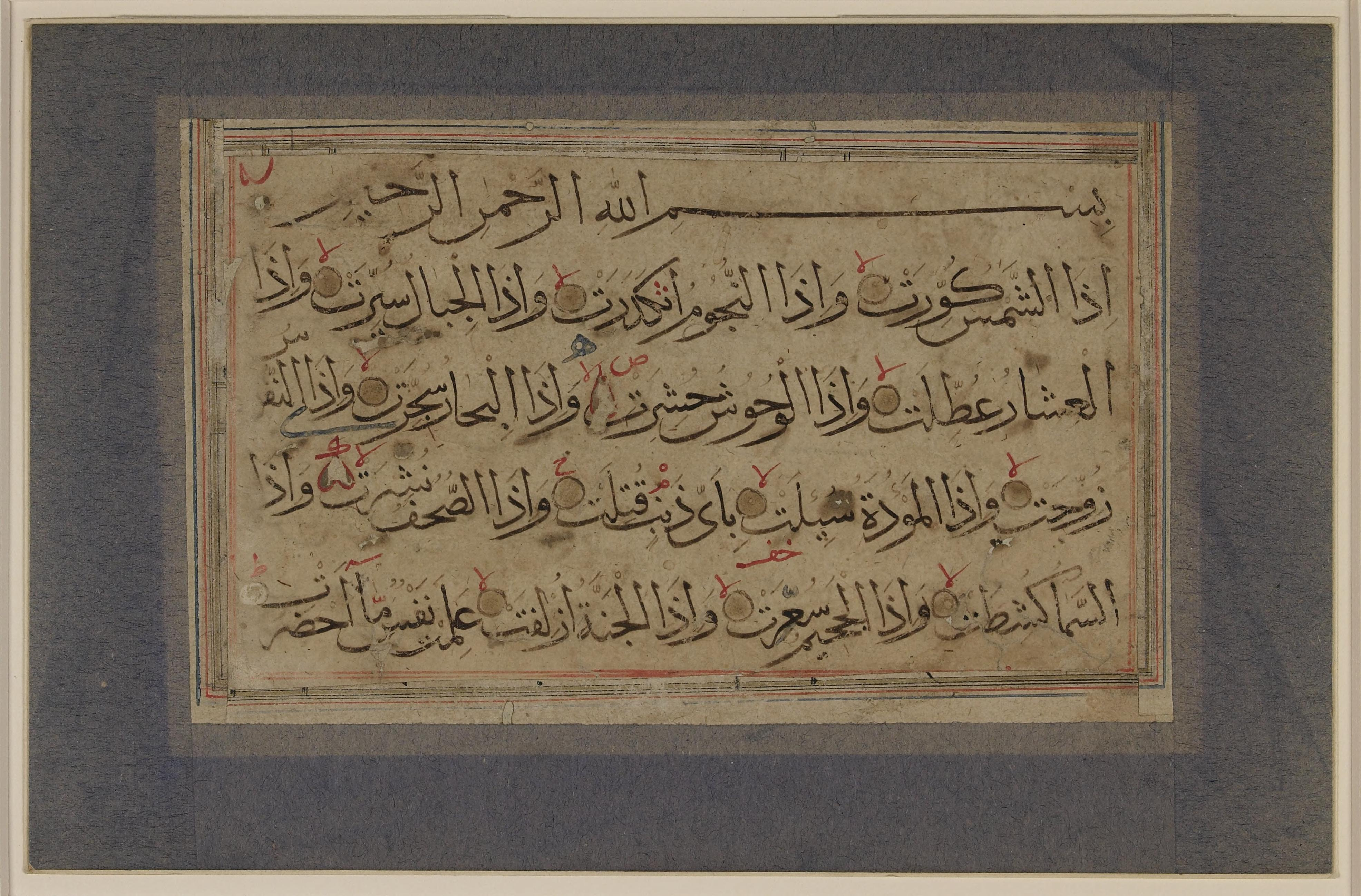 This Qur'anic fragment includes the bismillah and verses 1-14 of surah 81, entitled al-Takwir (The Folding up), in Rayhani script.